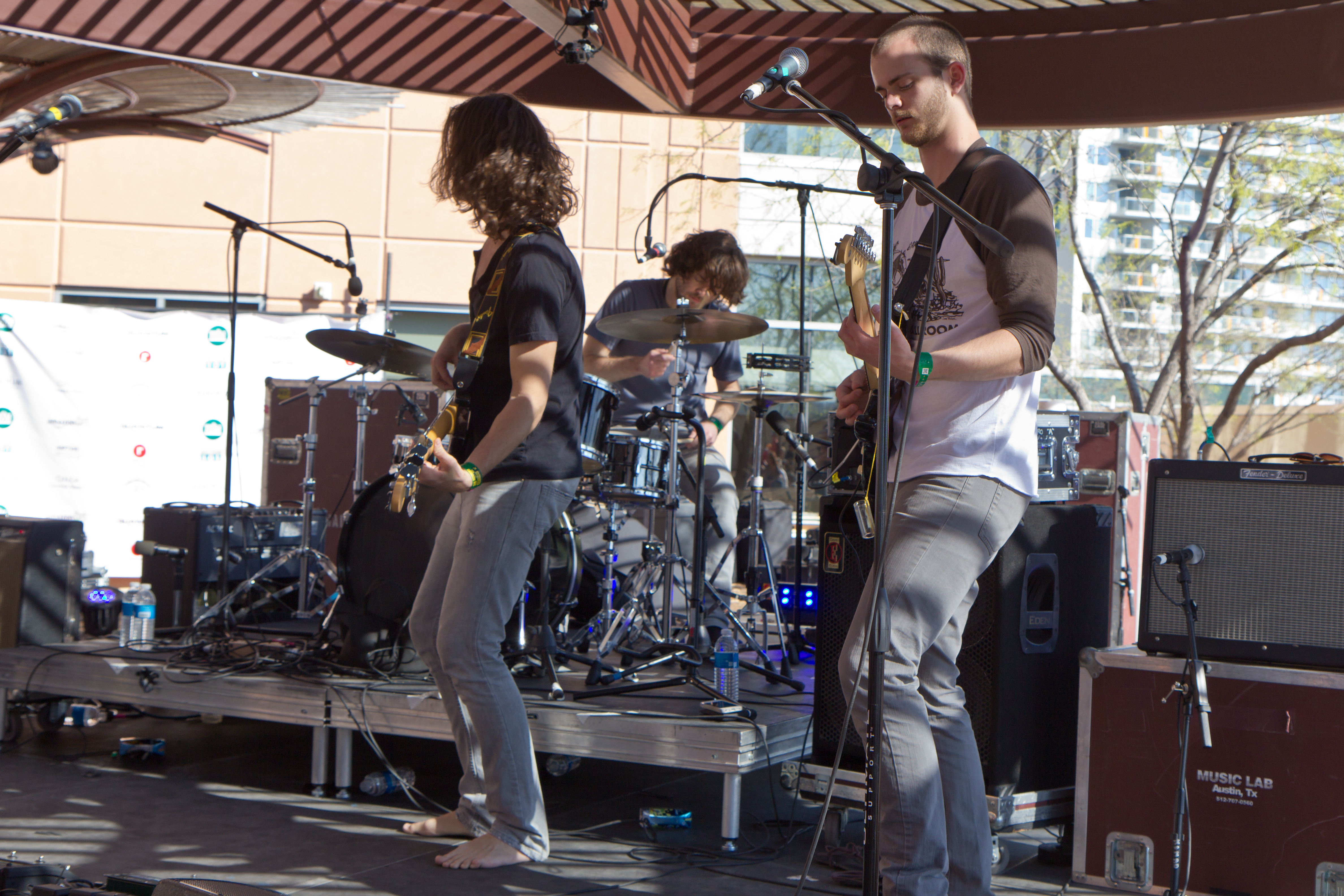 the South African alternative rock band "Kongos" (2013 in Austin, Texas)